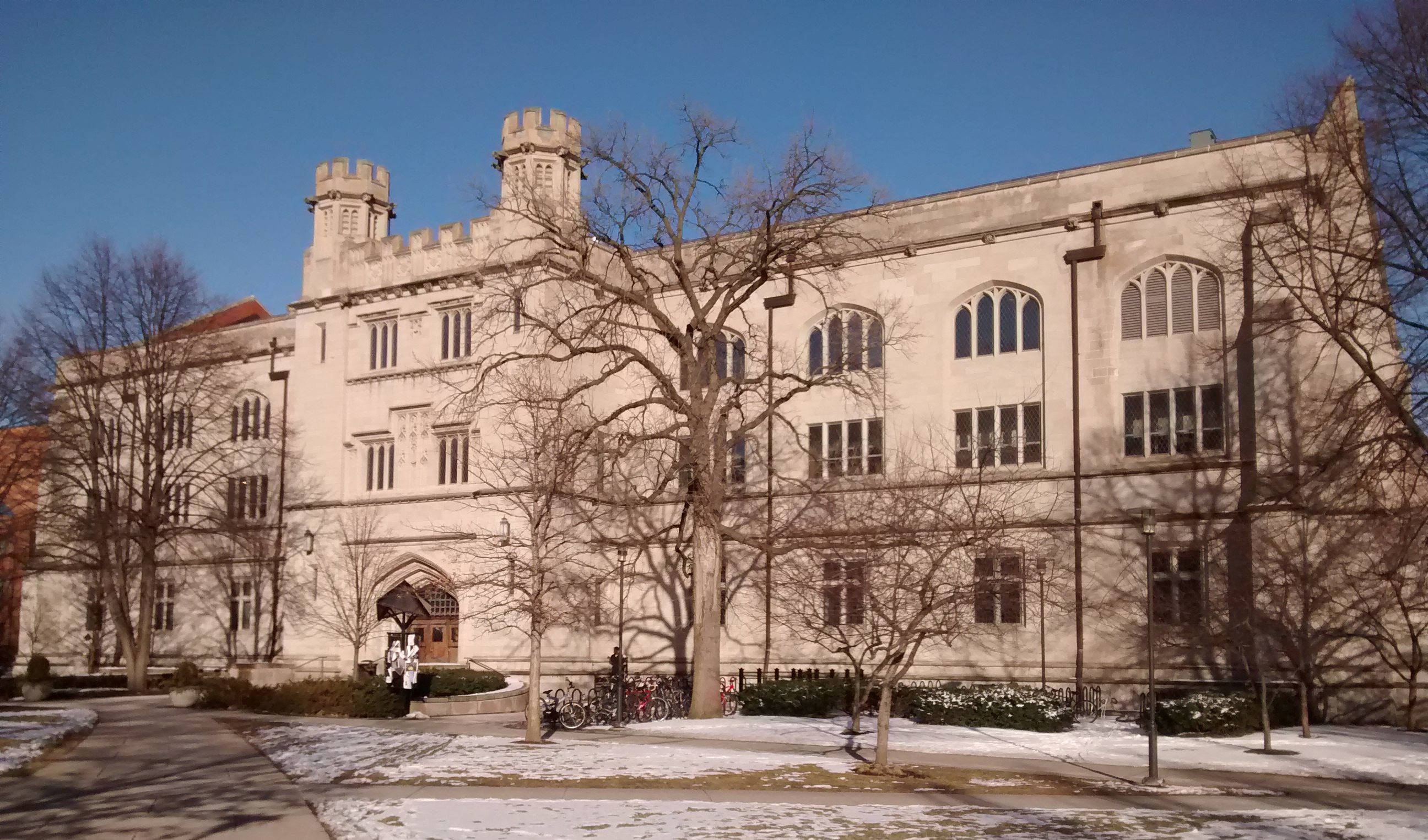 Bartlett Dining Commons at the University of Chicago in February 2016.